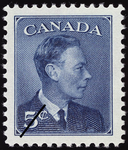 Timbre Poste Canada 5 cents George VI 1950. Printed by Canadian Bank Note Company.